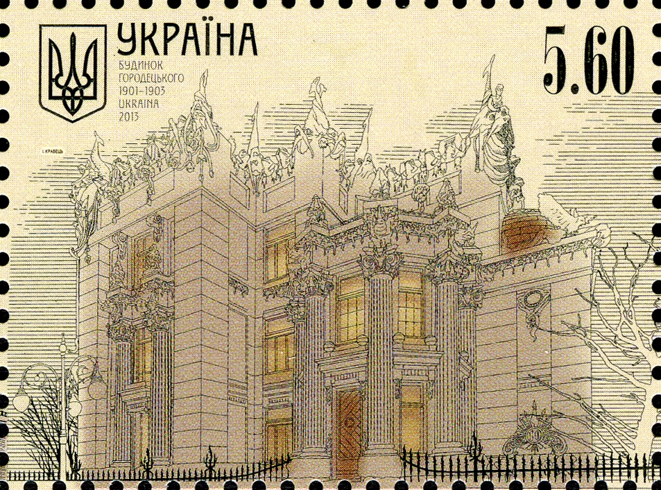 Stamps of Ukraine, 2014